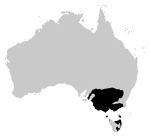 Distribution of the Southern Bell Frog (Litoria raniformis) in Australia.